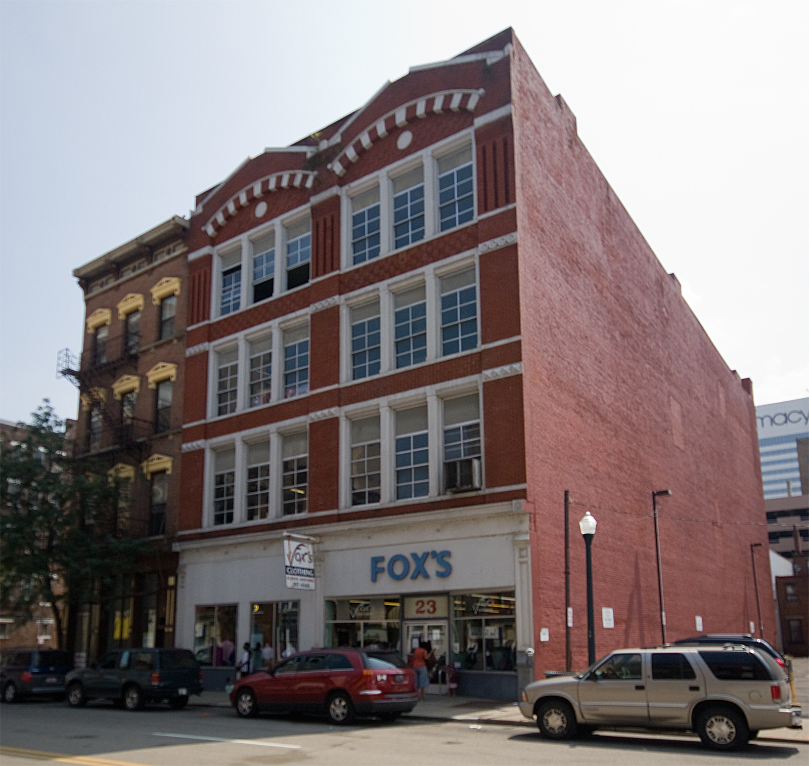 Alkemeyer Commercial Building taken by Greg Hume.